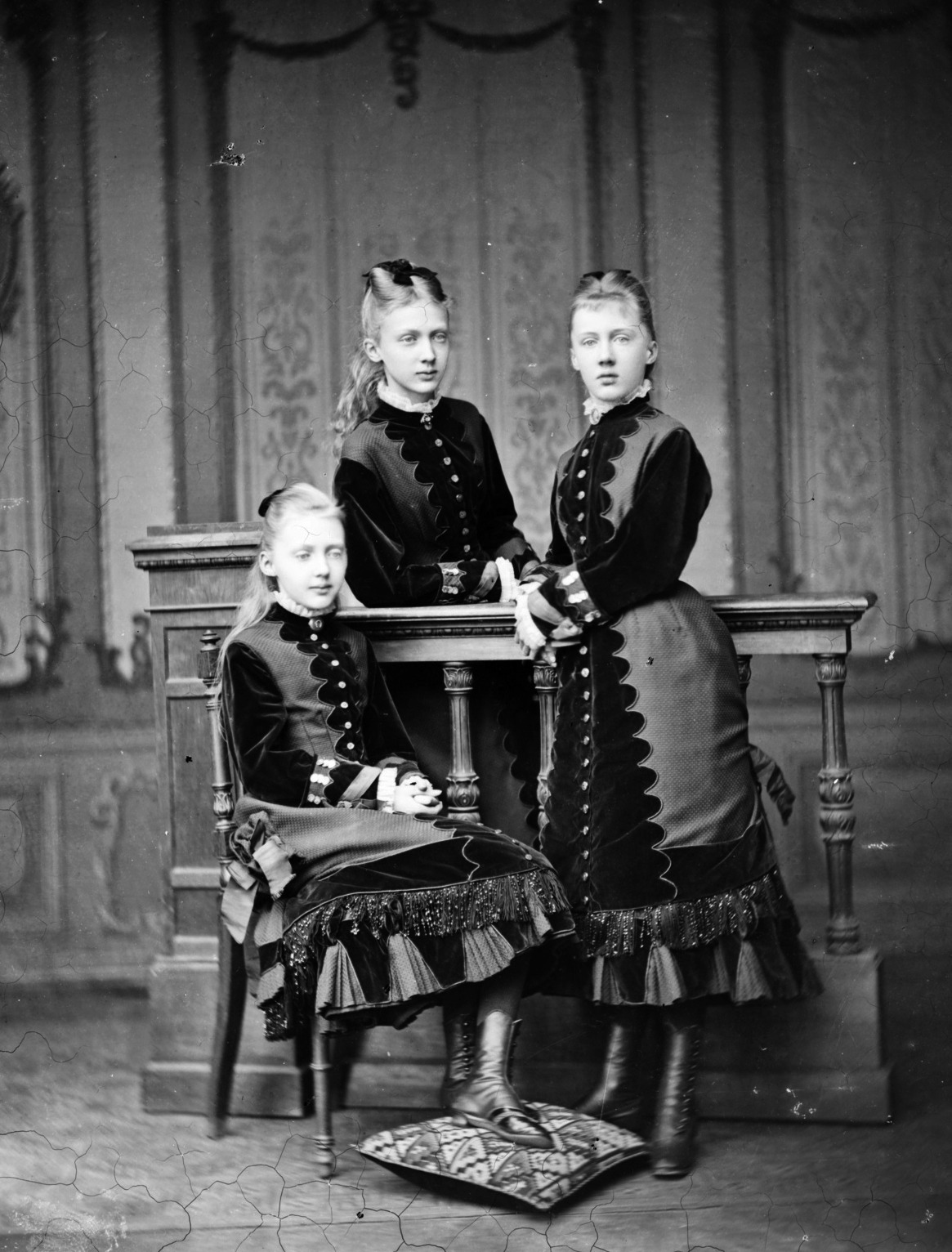 Princesses of Saxe-Altenburg: Margarete, Maria Anna and Elisabeth (later Grand Duchess Elizabeth Mavrikievna of Russia).